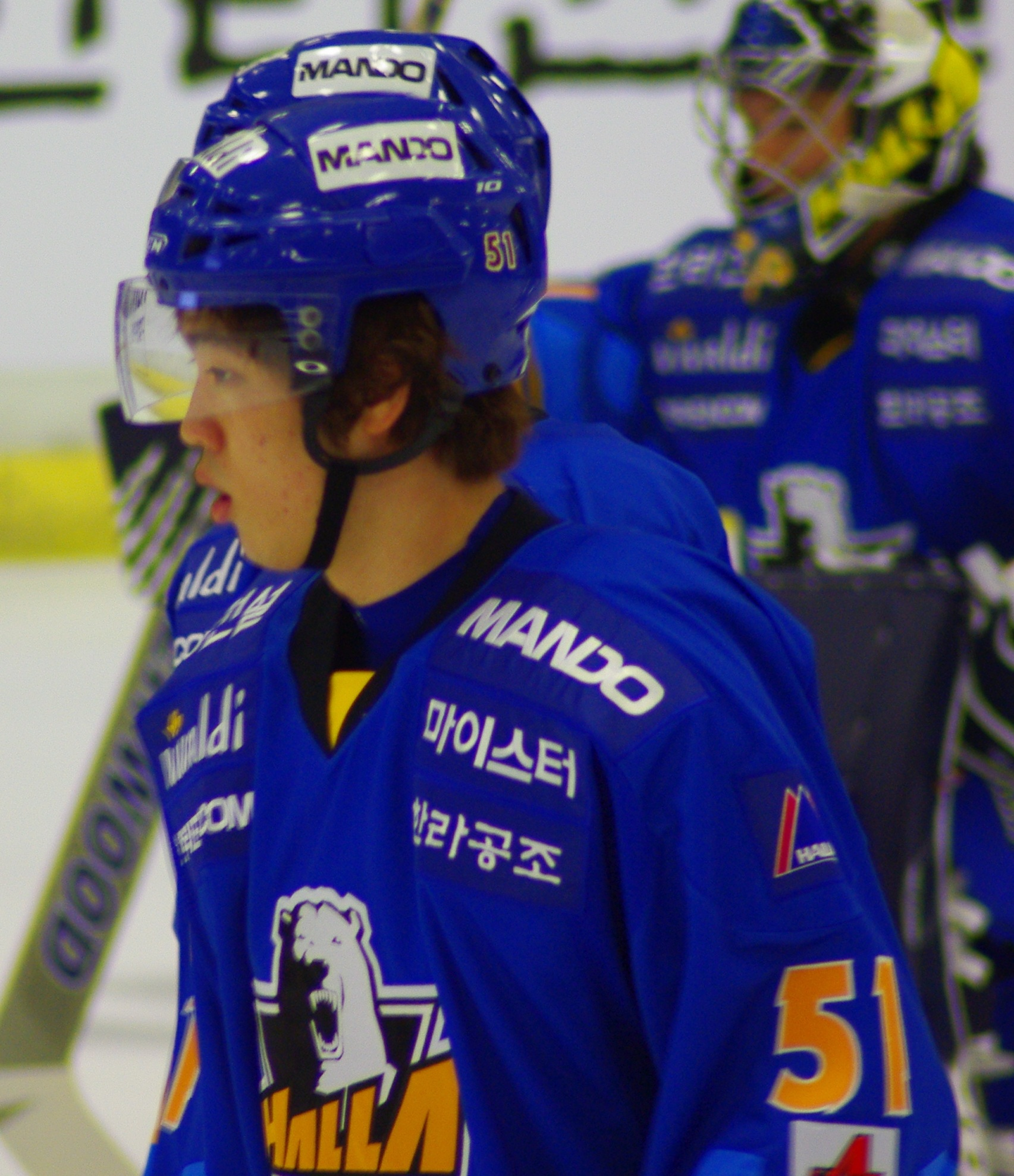 Kim Woo-Young from Anyang Halla